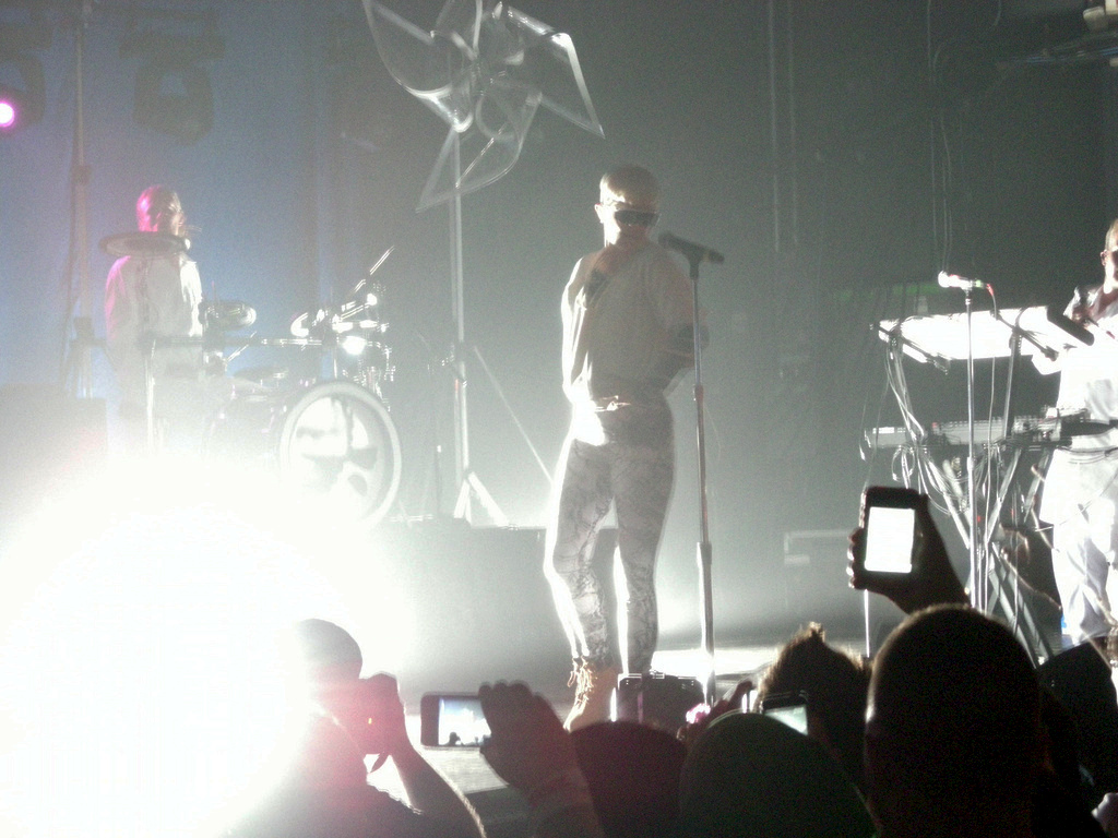 Robyn performing "Fembot" in Columbus, OH